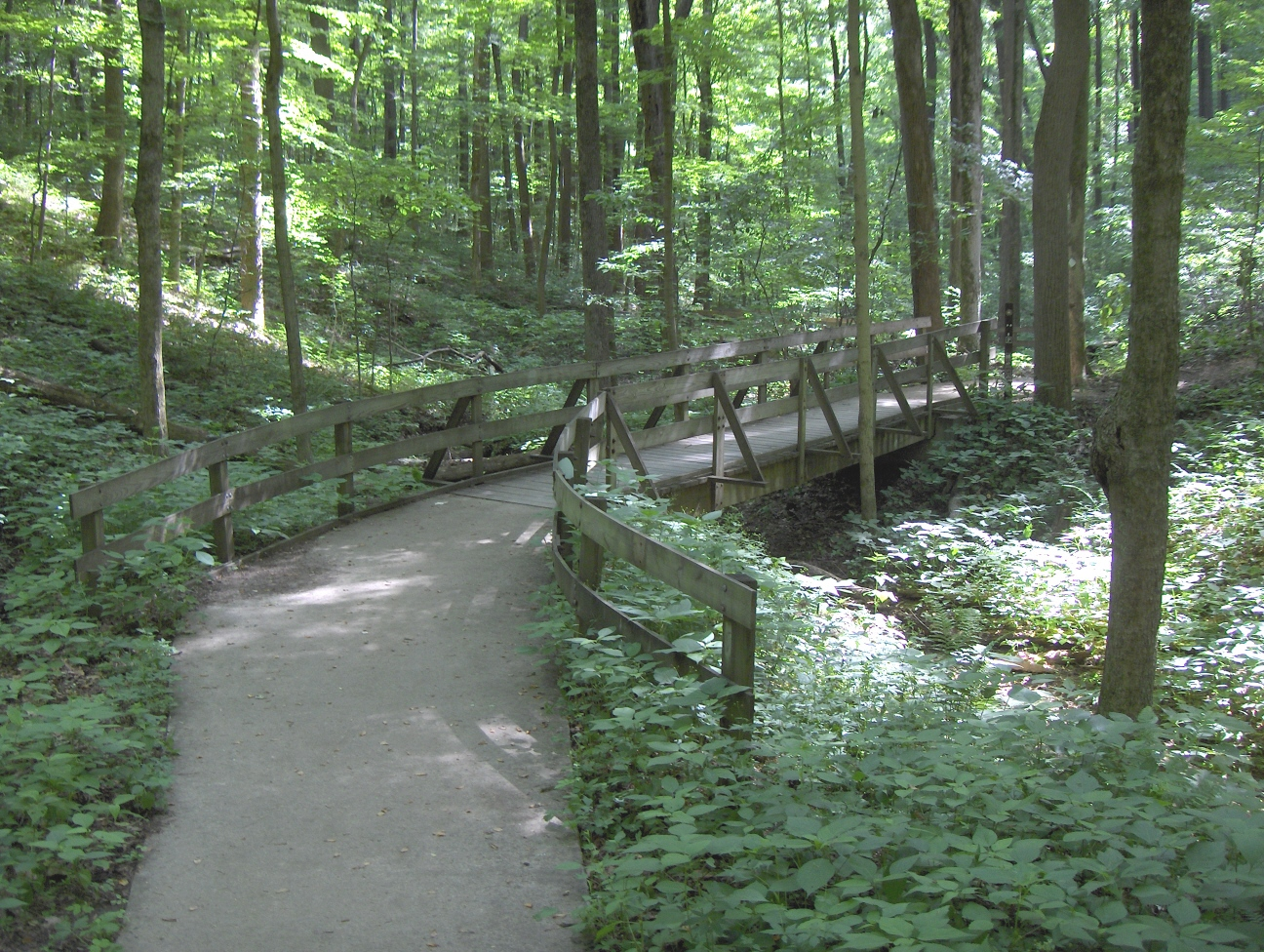 Jefferson Memorial Forest, Tuliptree trail, near Louisville, Kentucky